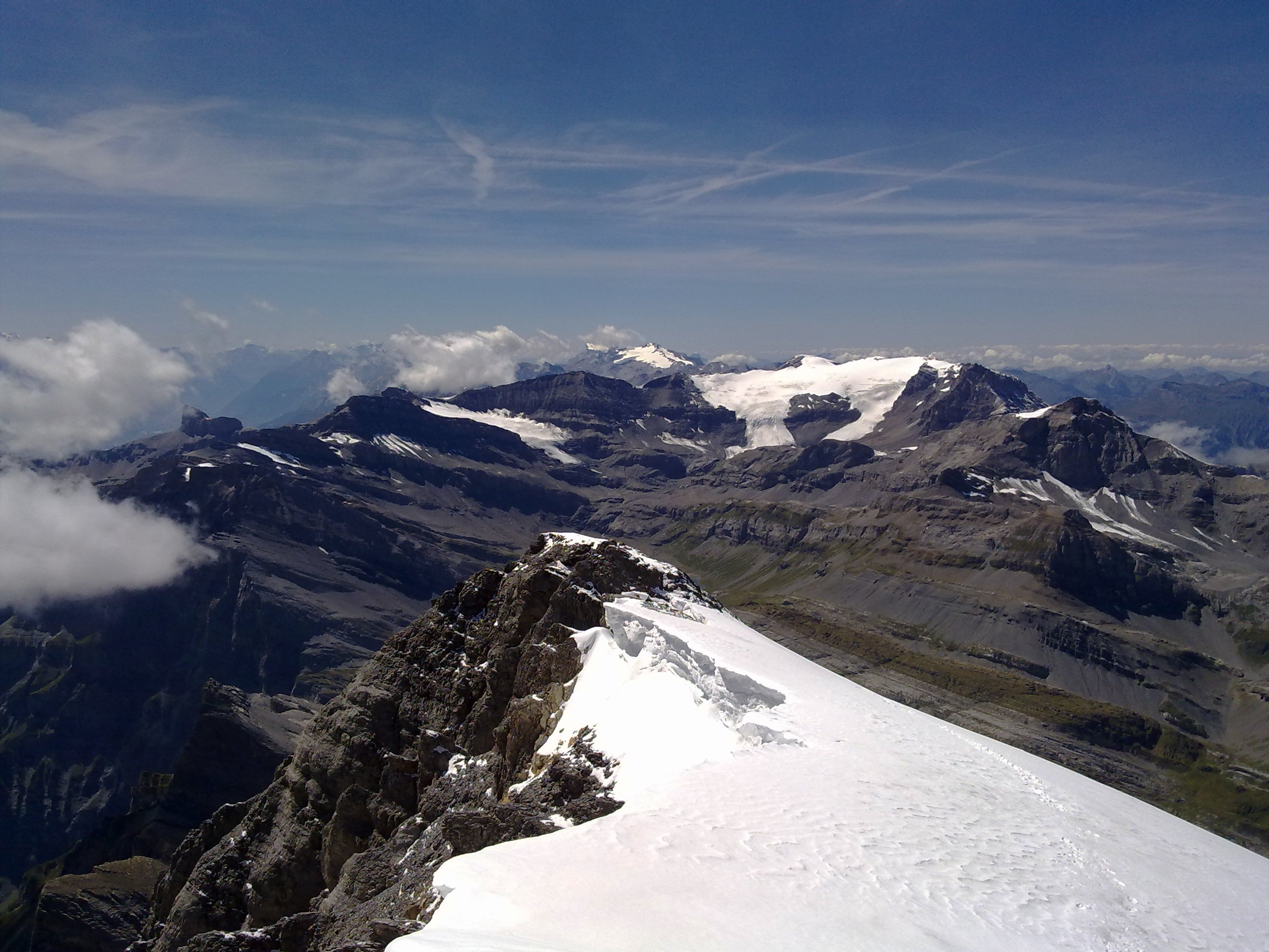 View from a few metres below the summit of the Rinderhorn.